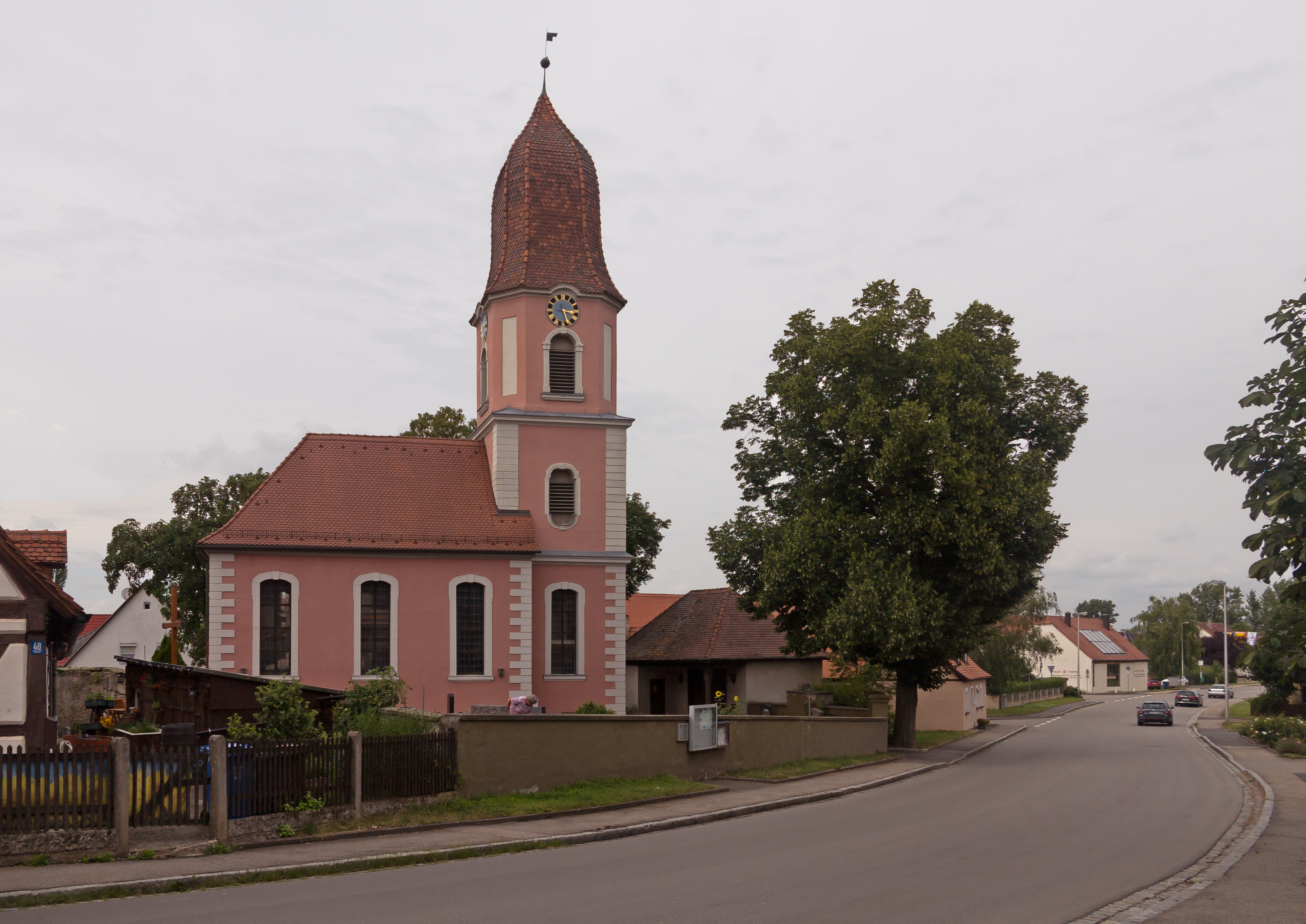 Oberndorf, church: die evangelisch-lutherische Kirche Sankt KilianThis is a photograph of an architectural monument.